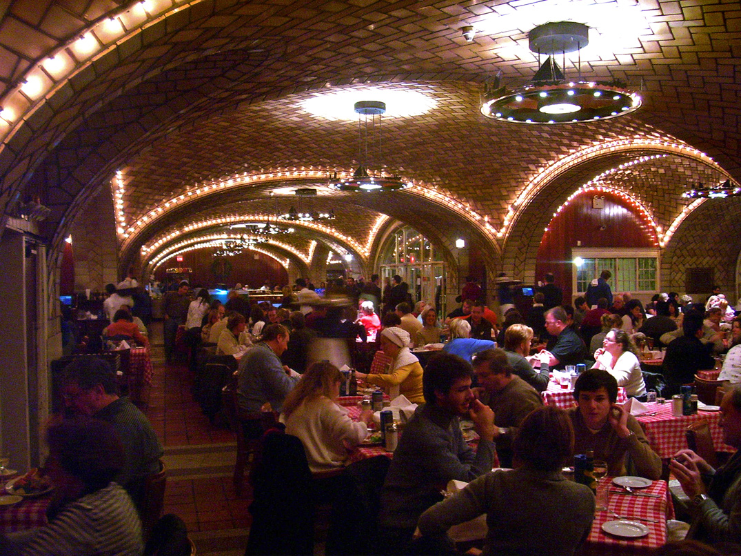 Interior of Oyster Bar Restaurant, in Grand Central Terminal, New York City, USA. Photographed by Daniel Case 2006-12-29